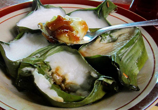 Jojorong is a food of Bantenese people from Pandeglang. This food is made from rice flour, brown sugar, coconut milk, and pandan leaves which served into a bowl made from banana leaves.